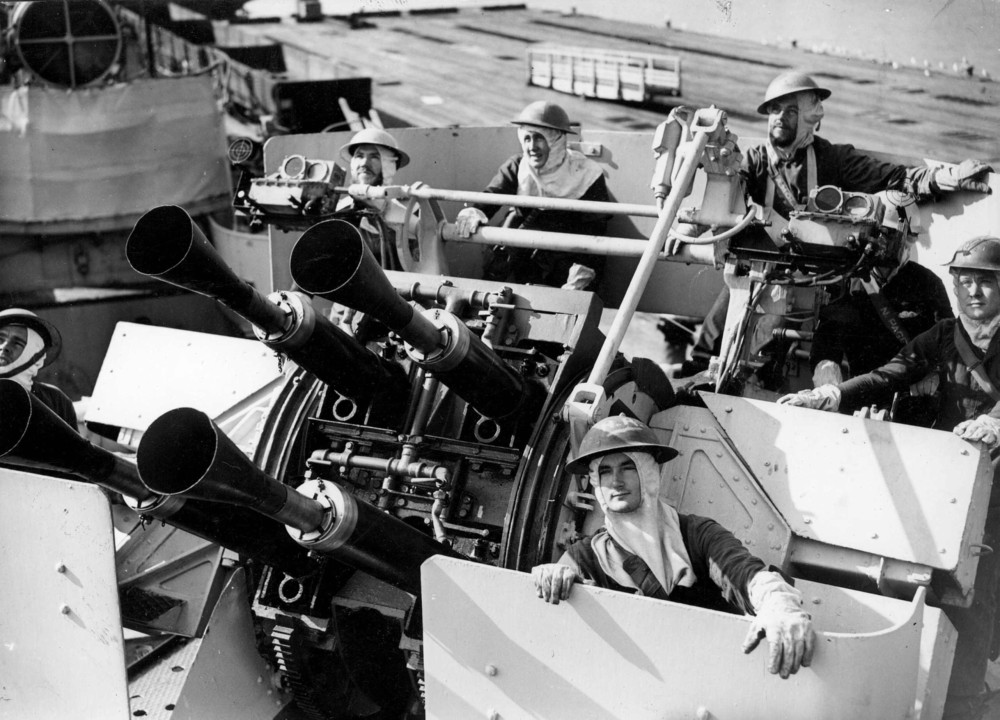 "Pom-pom gun crews on H.M.A.S. Napier".